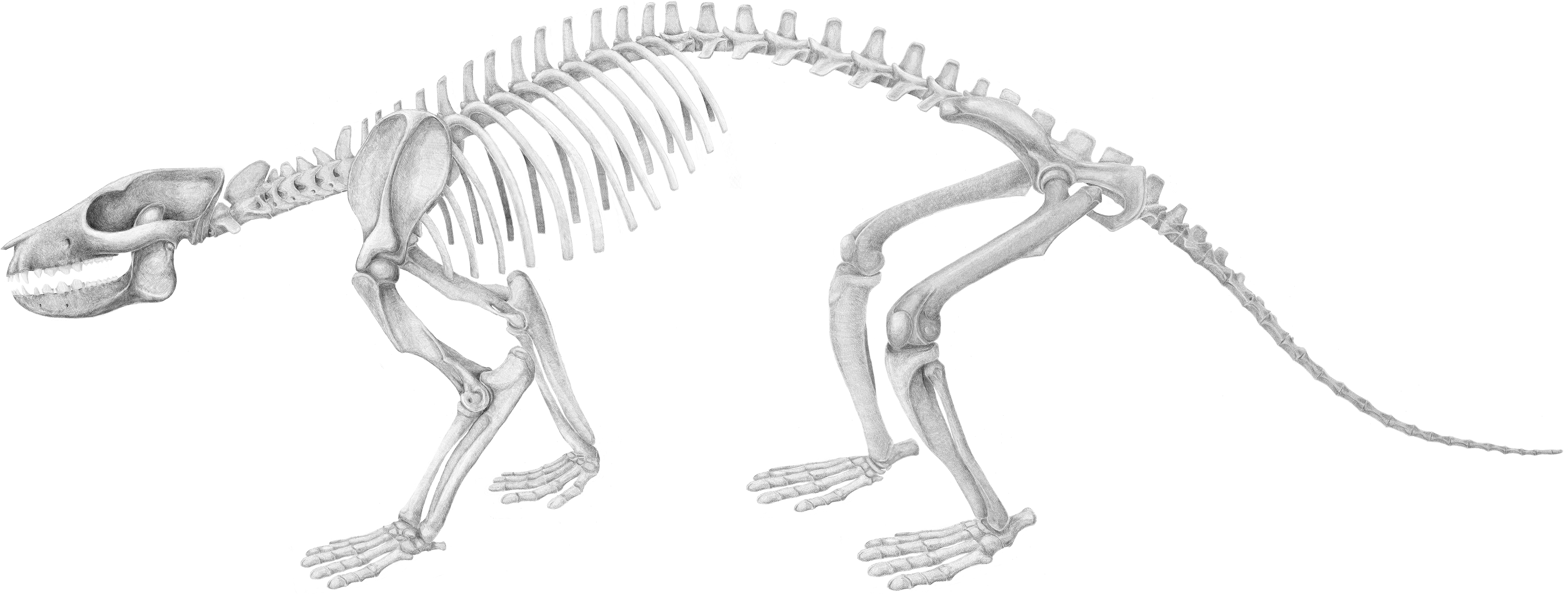 Skeletal reconstruction of Periptychus carinidens.